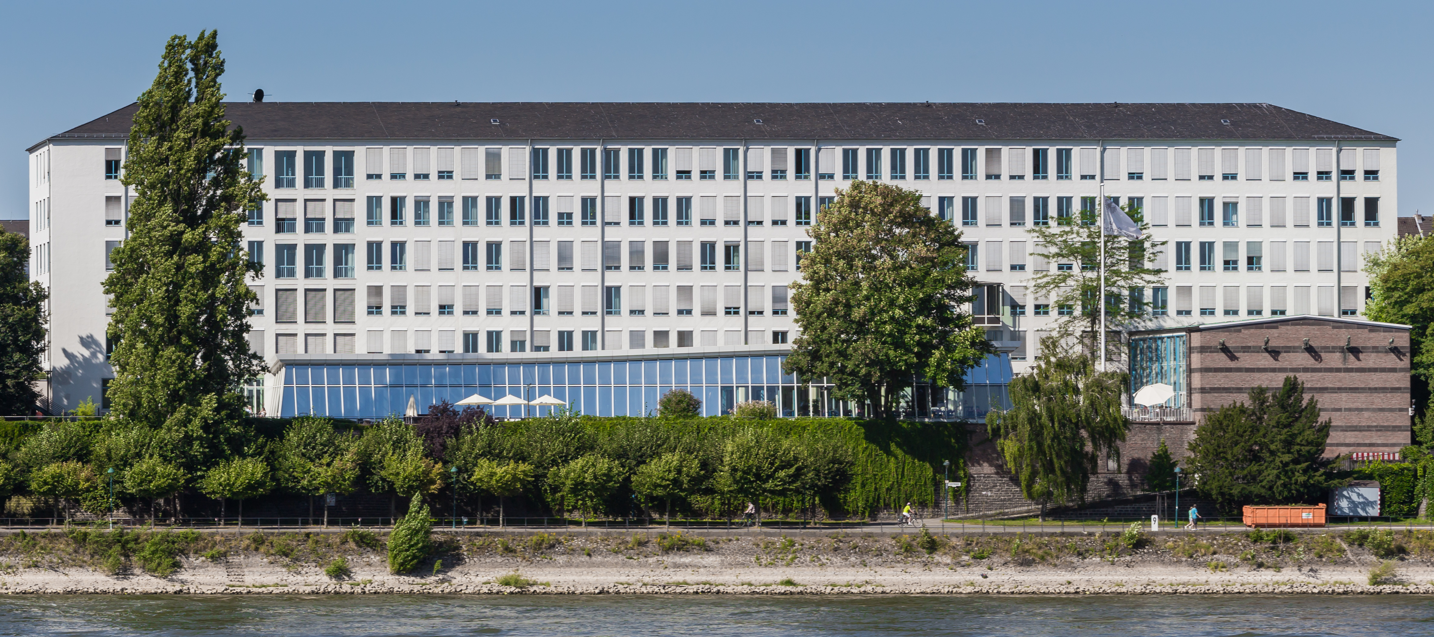 Heritage protected building, actual seat of Bundesrechnungshof, Bonn: total view of the building’s facade at Rhine side